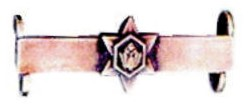 Bar to the iPhrothiya yeBhronzi - Bronze Protea, post-nominal letters PB, awarded to persons who have distinguished themselves by leadership or meritorious service and devotion to duty